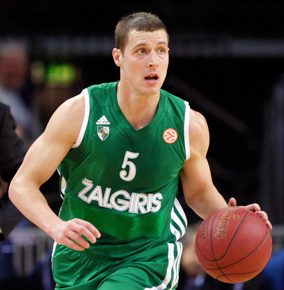 Basketball player Donnie McGrath